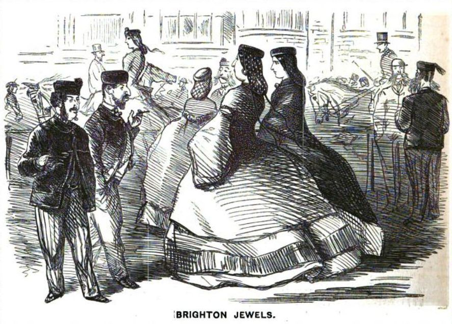 "Brighton Jewels". Depiction of a fashionable crowd from "Punch" Magazine, October 27, 1860, p. 164.